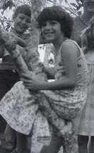 Krusi in Tumi Chucua 1978